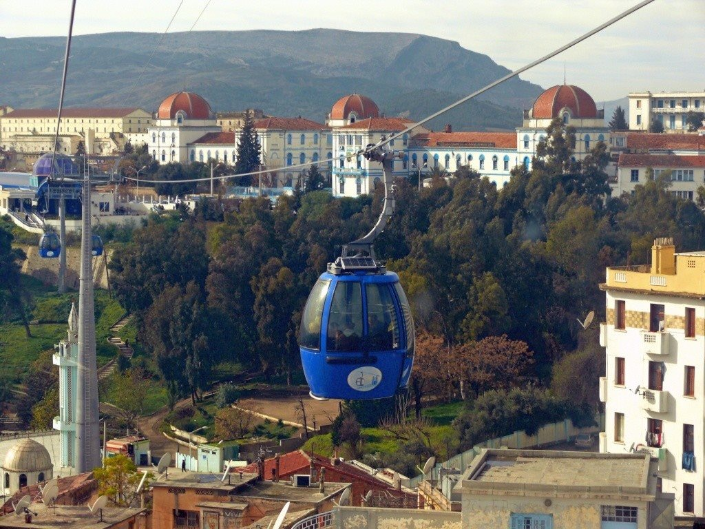 Constantine